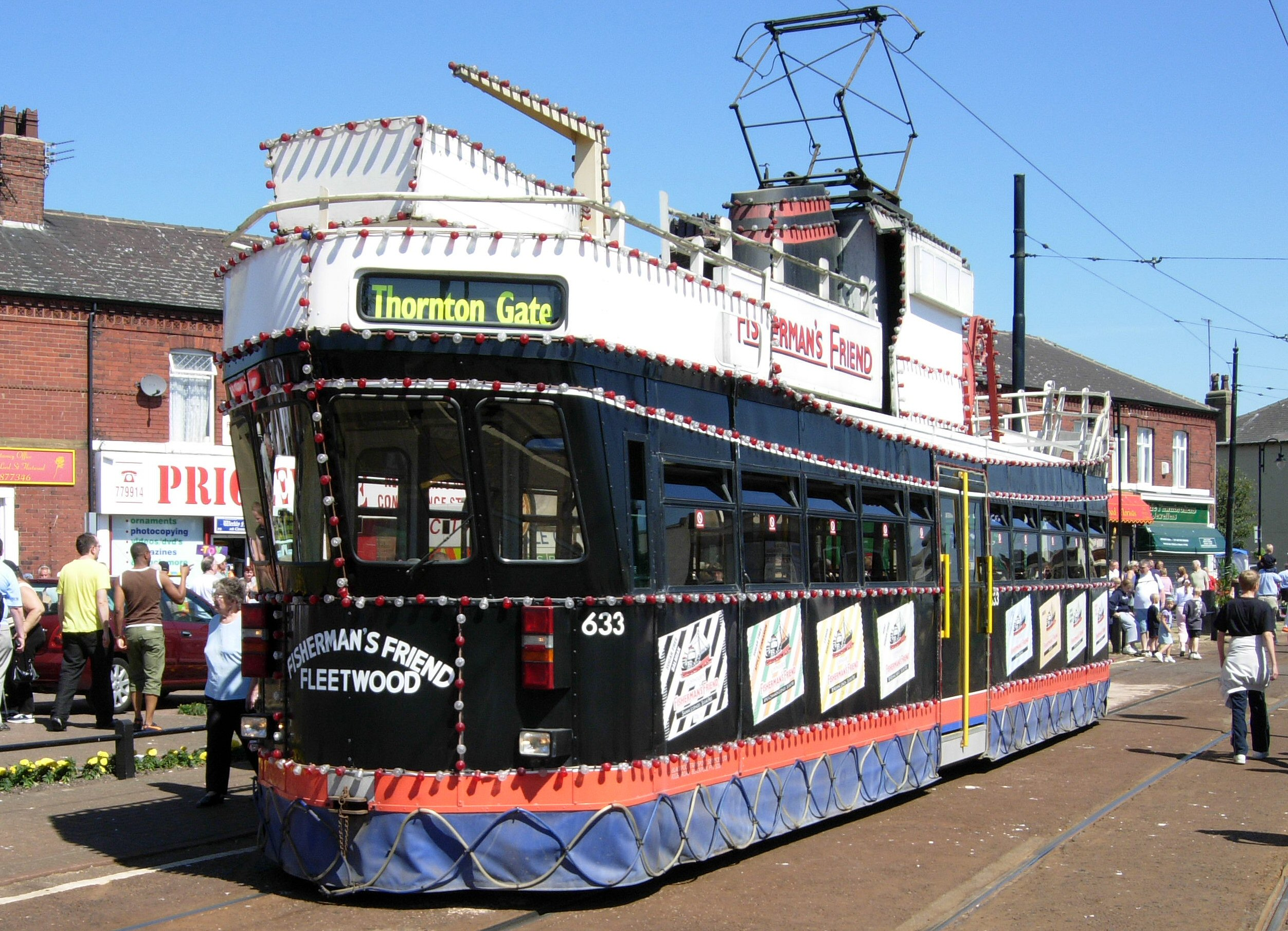 Brush~2001 at Fleetwood, Ash Street on 16th July 2006. Blackpool Transport, No.633.